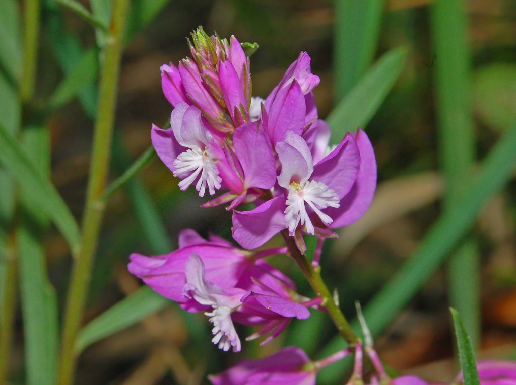 Polygala vulgaris - Genova, Italy